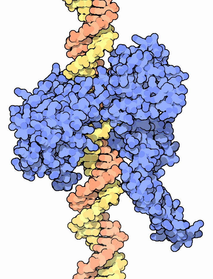 Shaded space-fill drawing of Topoisomerase Type I enzyme (blue) bound to double-helical DNA (yellow, orange). From PDB file 1a36, by David Goodsell in RCSB Molecule of the Month #73.